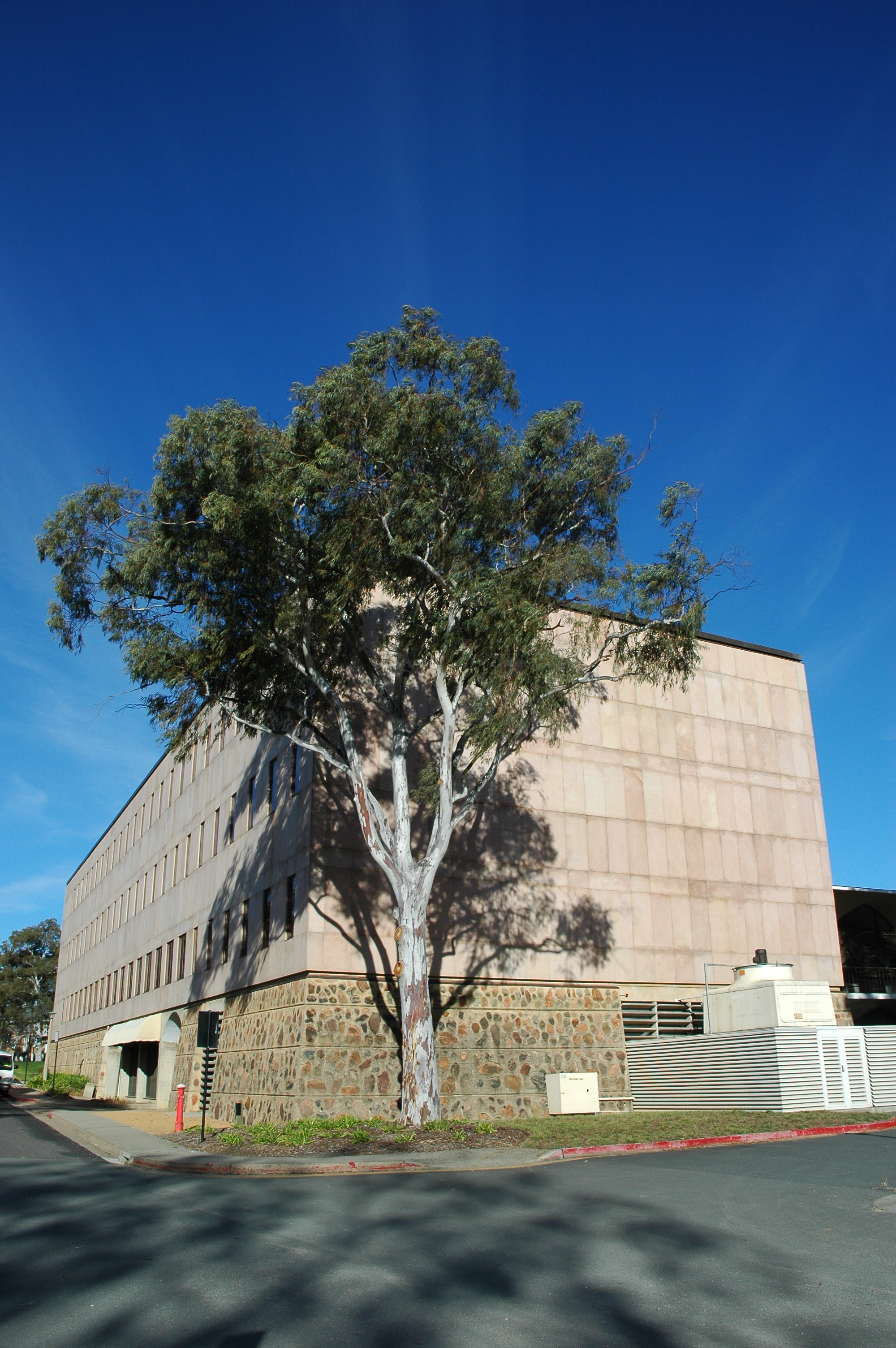 R.G. Menzies Building of the Australian National University (ANU) in Canberra.